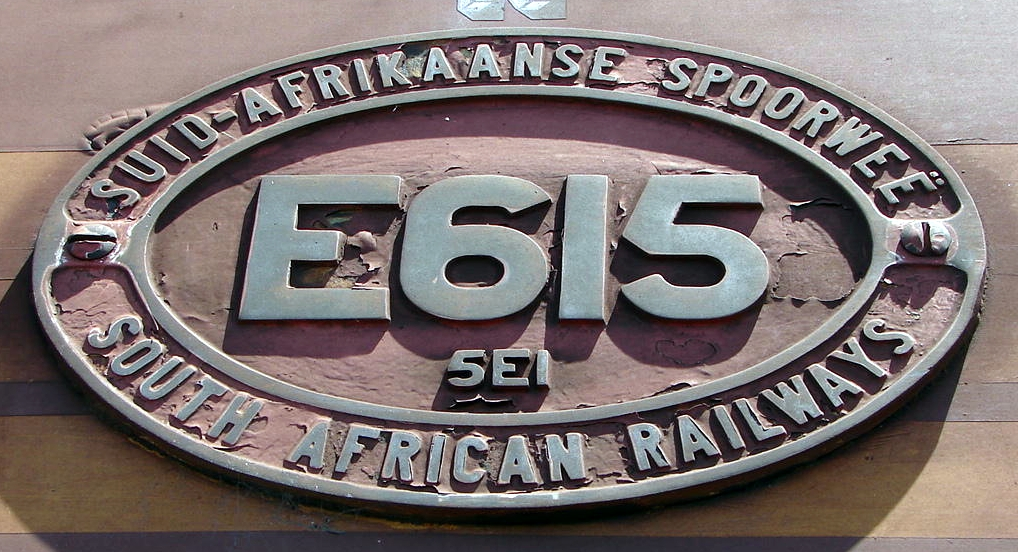 SAR Class 5E1 Series 2 E615 number plate Location: Bellville, Cape Town